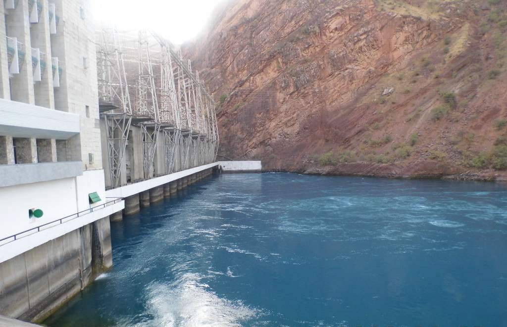 Nurek hydroelectric station,Tajikistan